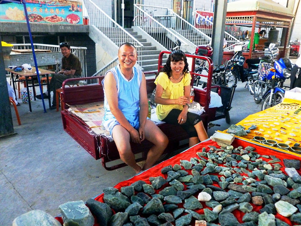 i took this photo on a trip from Khotan to Dunhuang in 2011.